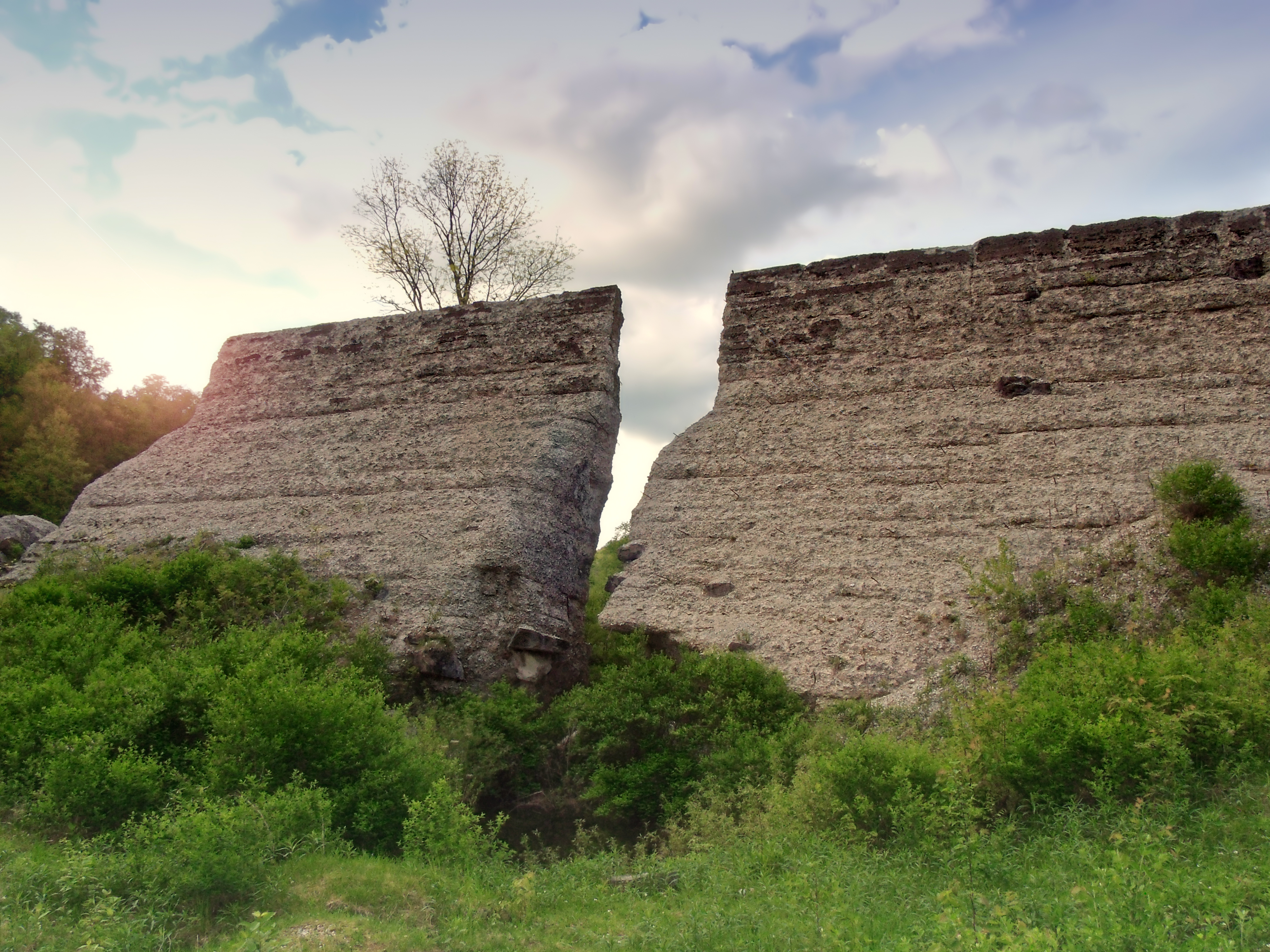 Dam ruins, Austin Dam Memorial Park, Potter County.